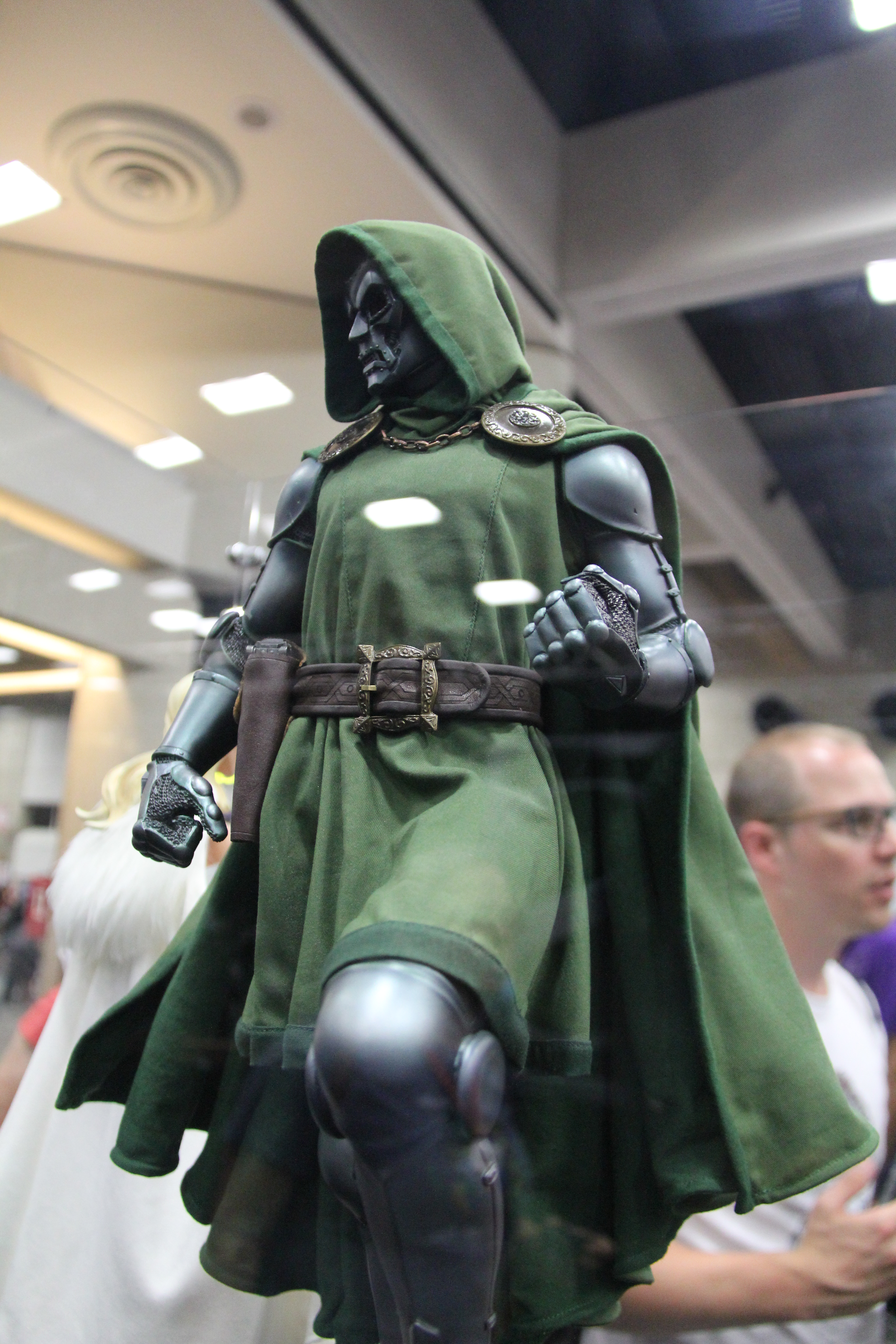 Doctor Doom